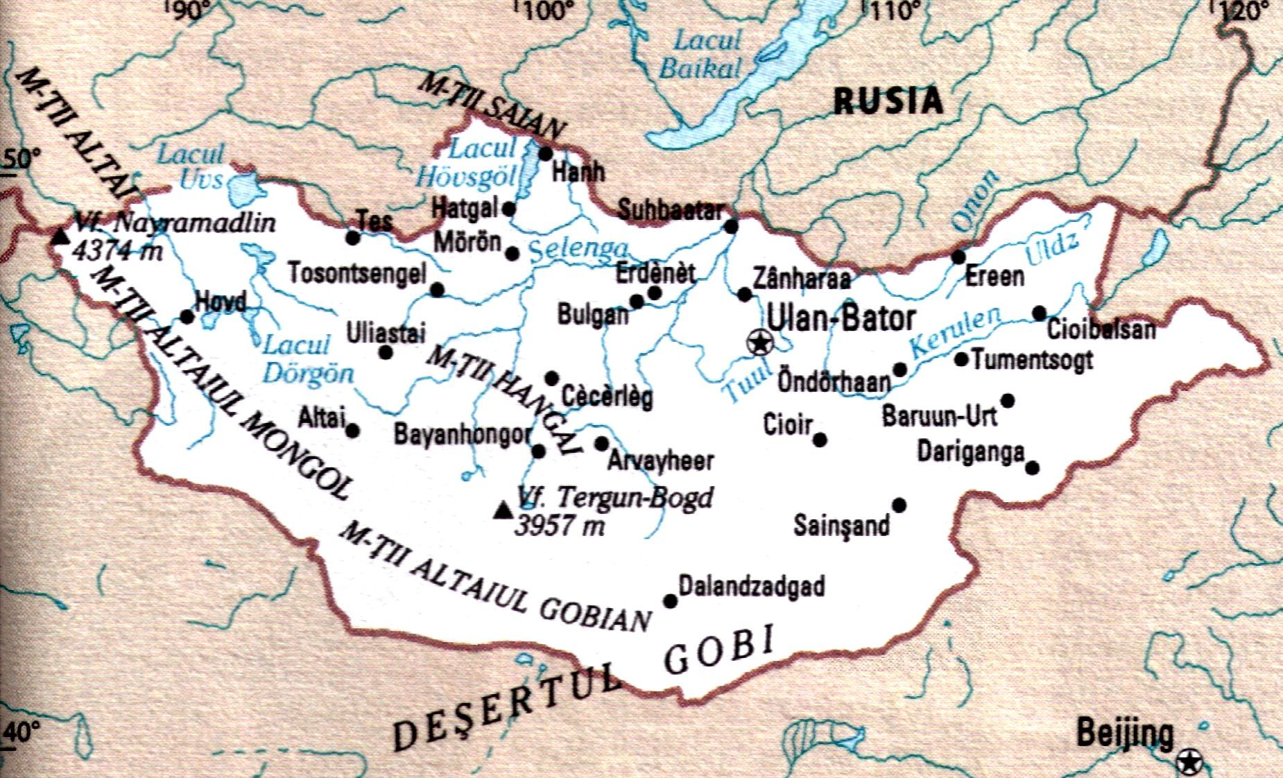 Map of Mongolia Ro